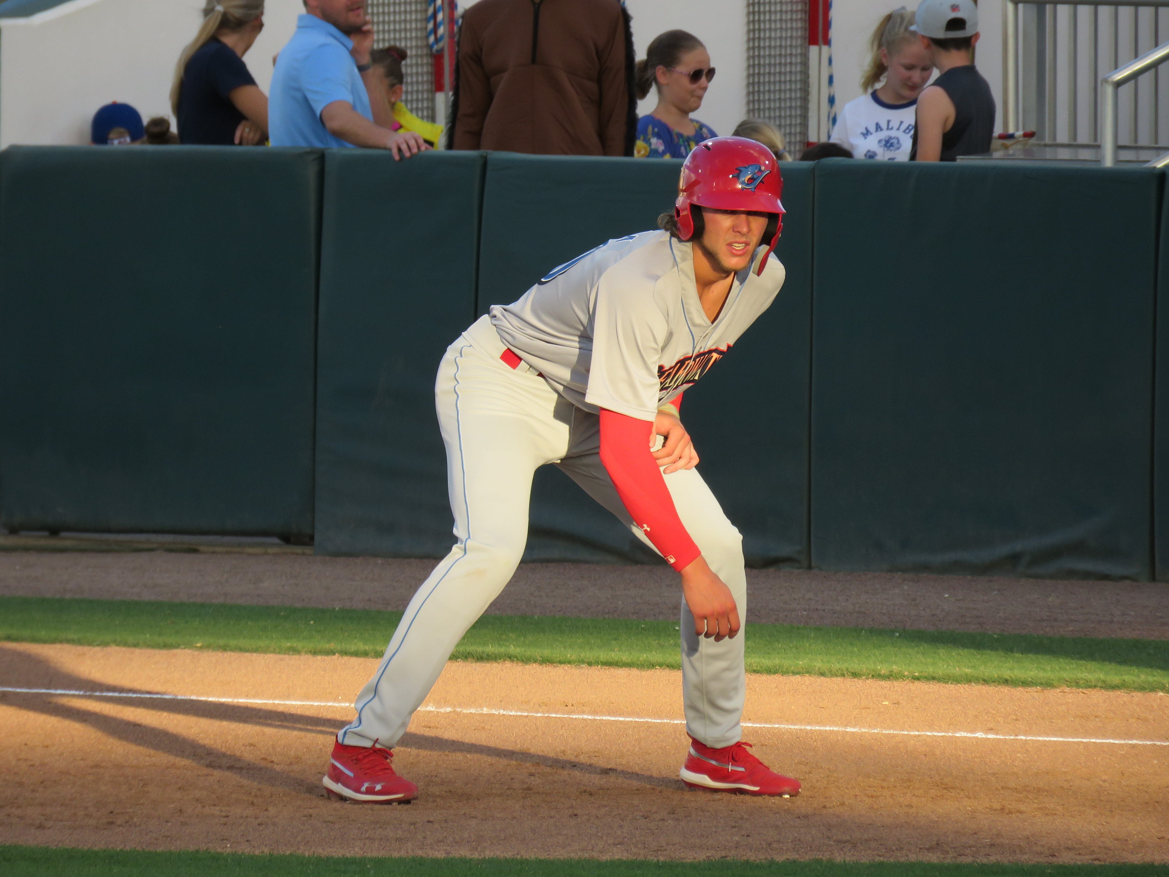 Alec Bohm taking a lead from first base for the Clearwater Threshers in 2019